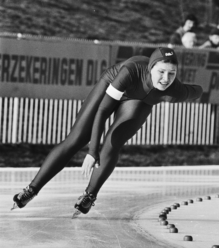 Wereldkampioenschappen schaatsen junioren allround in Assen. Natalya Kurova (Sovjet-Unie) in actie.